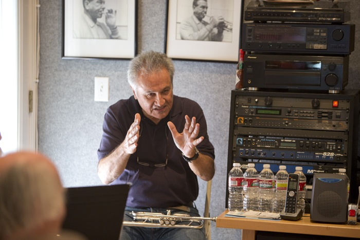 Thomas Stevens lecturing at Camp McNab. August 24, 2012. Photo by Barbara Porter